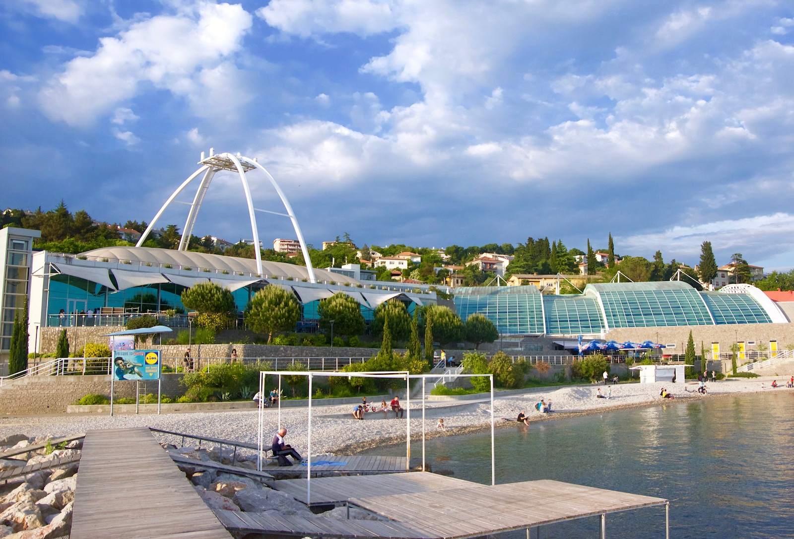 Bazeni Kantrida